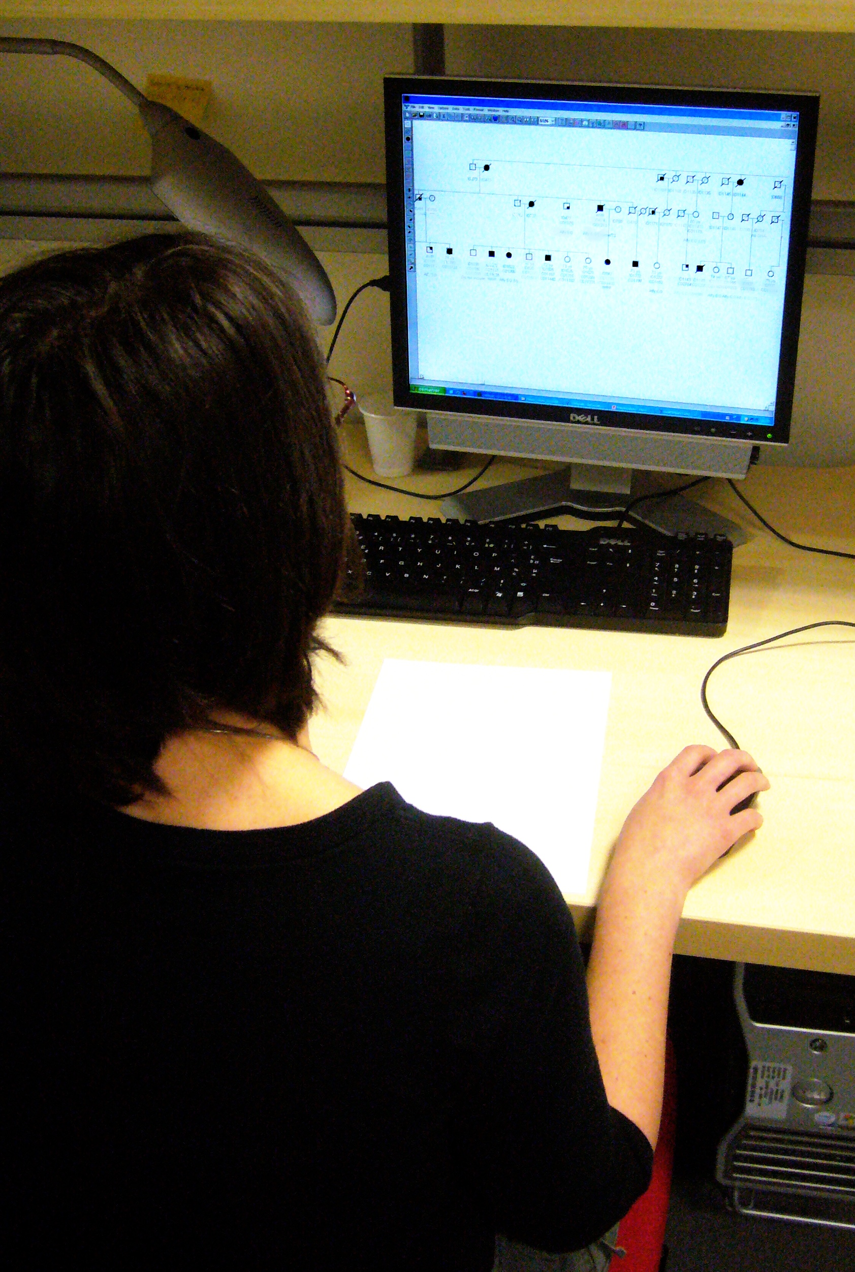 A Geneticist doing a pedigree analysis